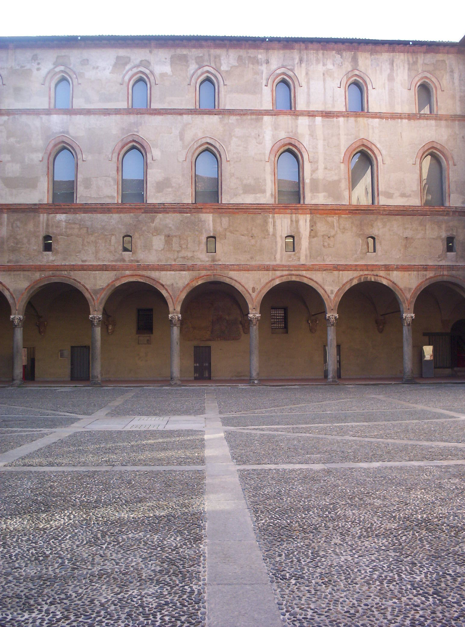 Smaller court (the so-called "Rocchetta") in the Castello Sforzesco in Milan. This is the most ancient part of the building. View from inside gates over building. Created by Connor Russell, October 2006.